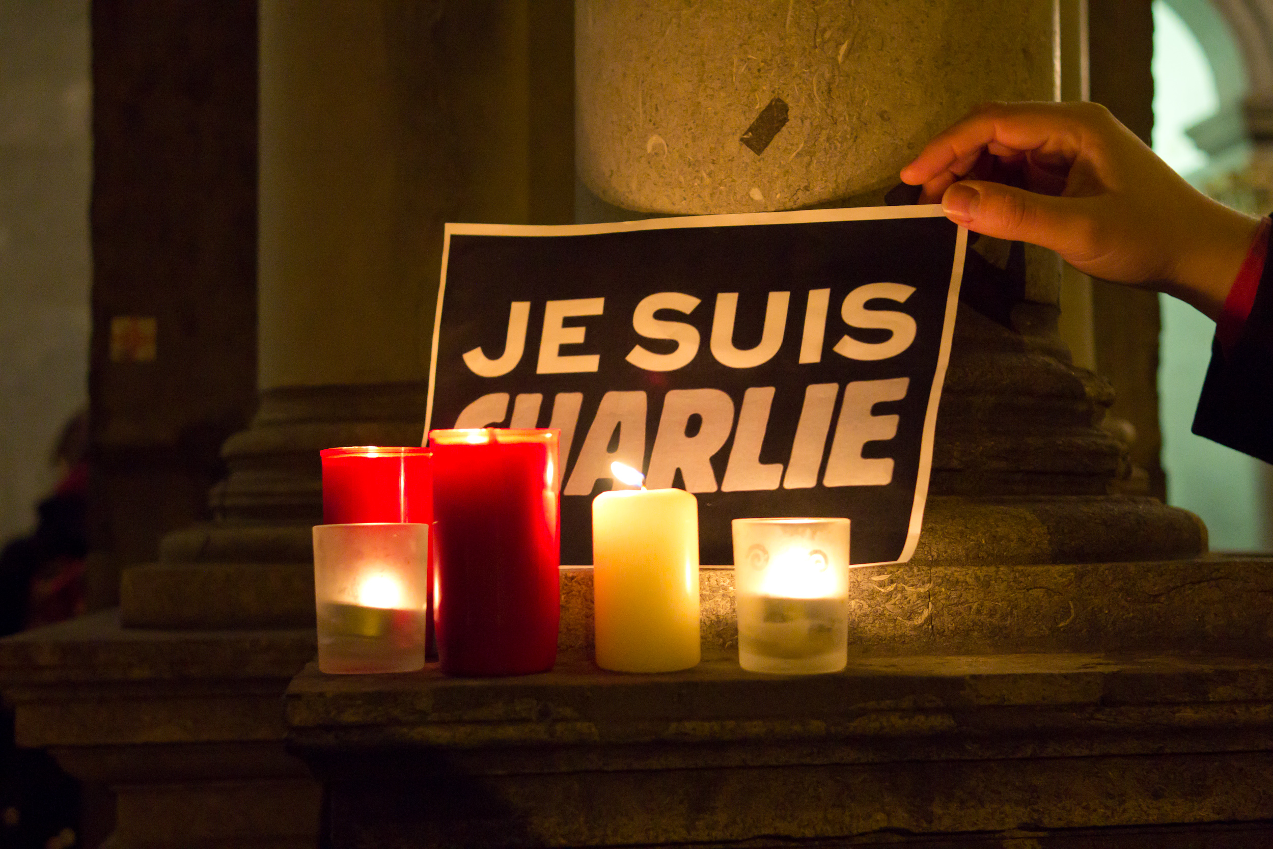 Rally in front of the old Cologne town hall in support of the victims of the 2015 Charlie Hebdo shooting